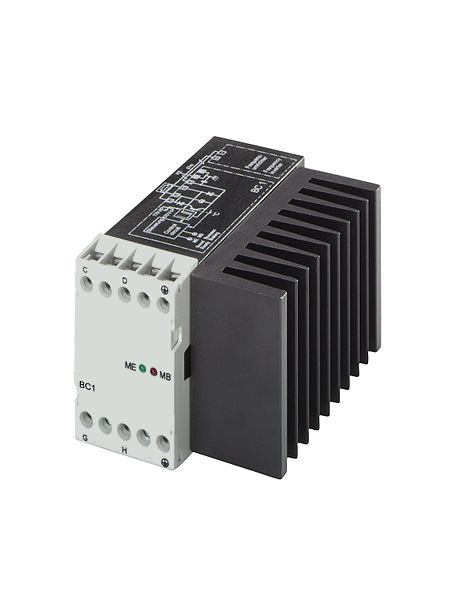 Small braking chopper.